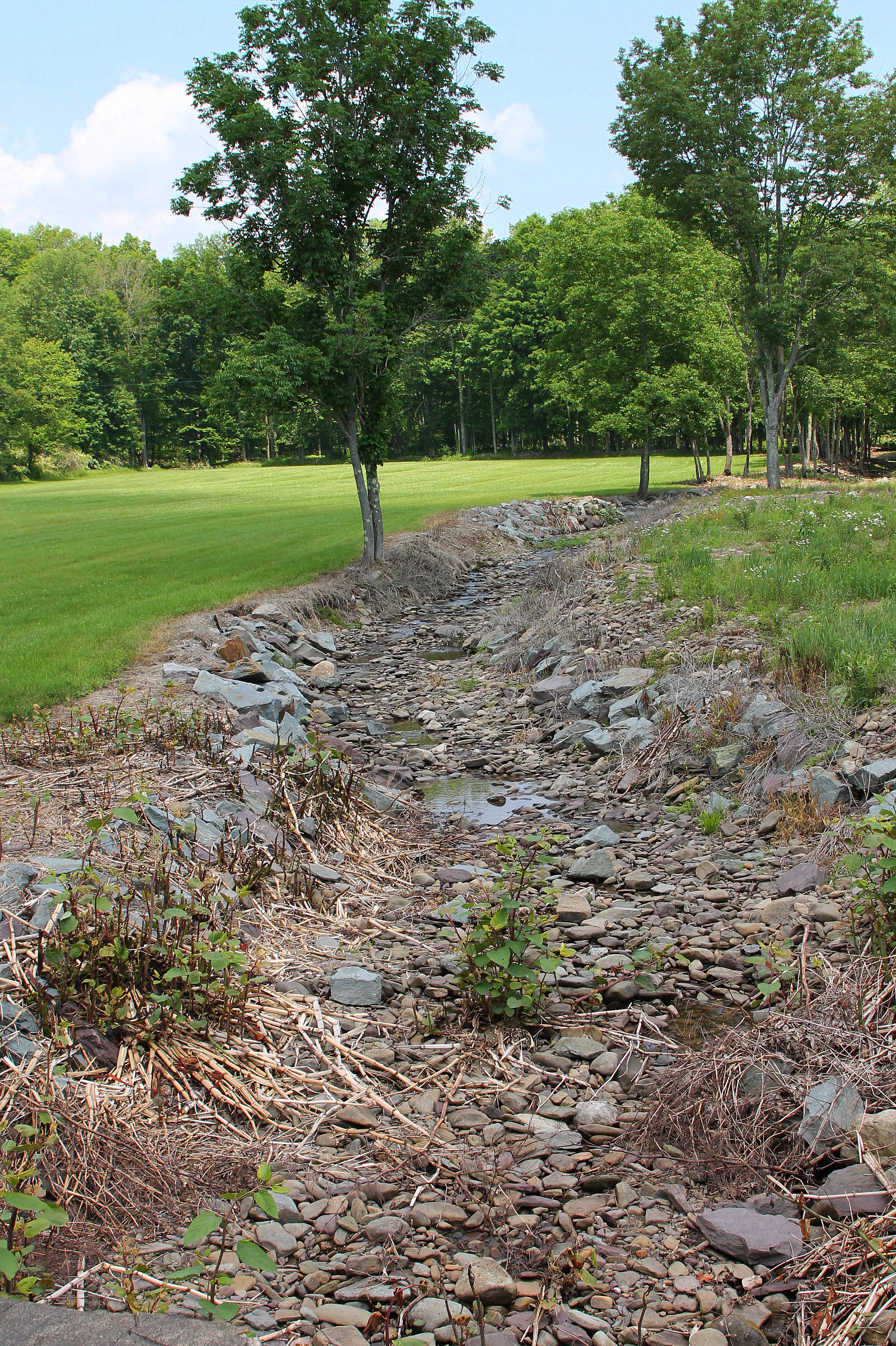 Huntington Creek looking upstream in its upper reaches during low flow conditions